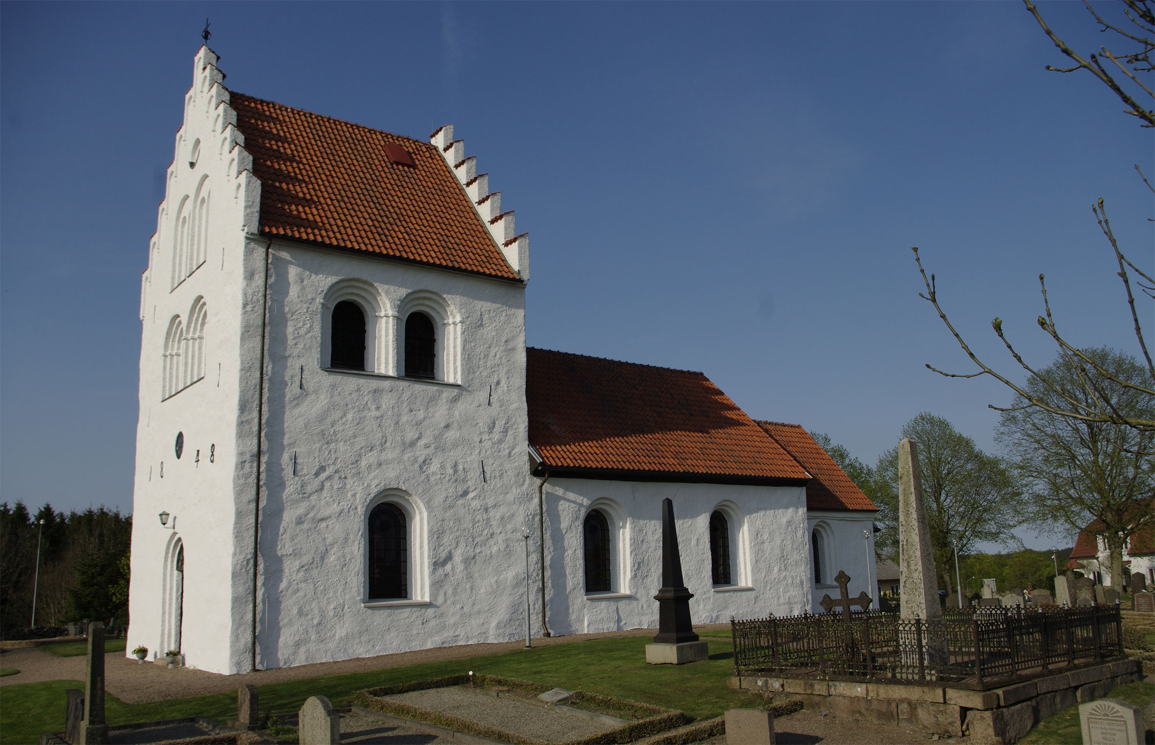 Stenestad church in Scania, Sweden.